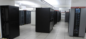 MSI Data Center room B40 Walter Library